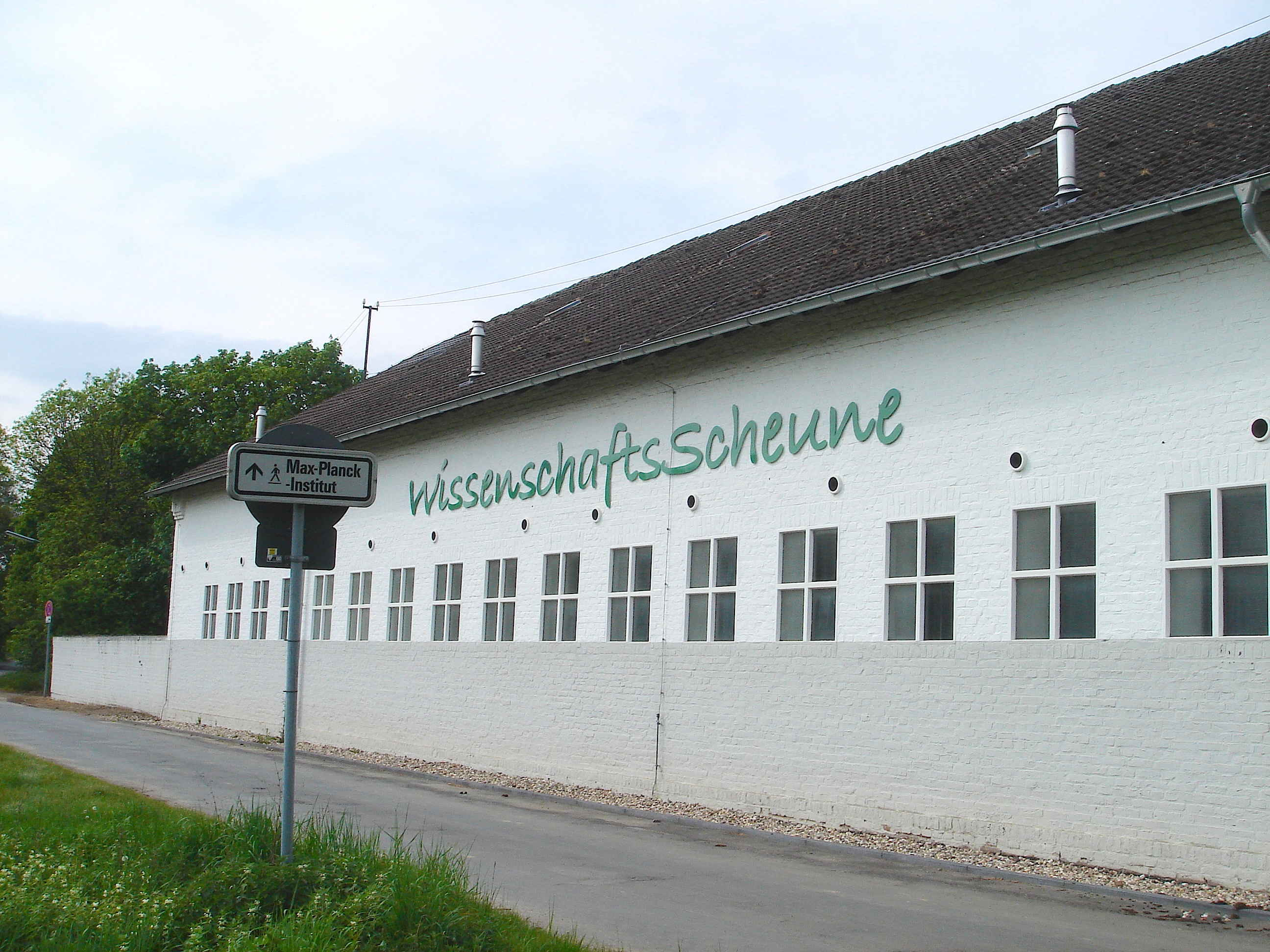 MPIPZ WissenschaftsScheune (Education)